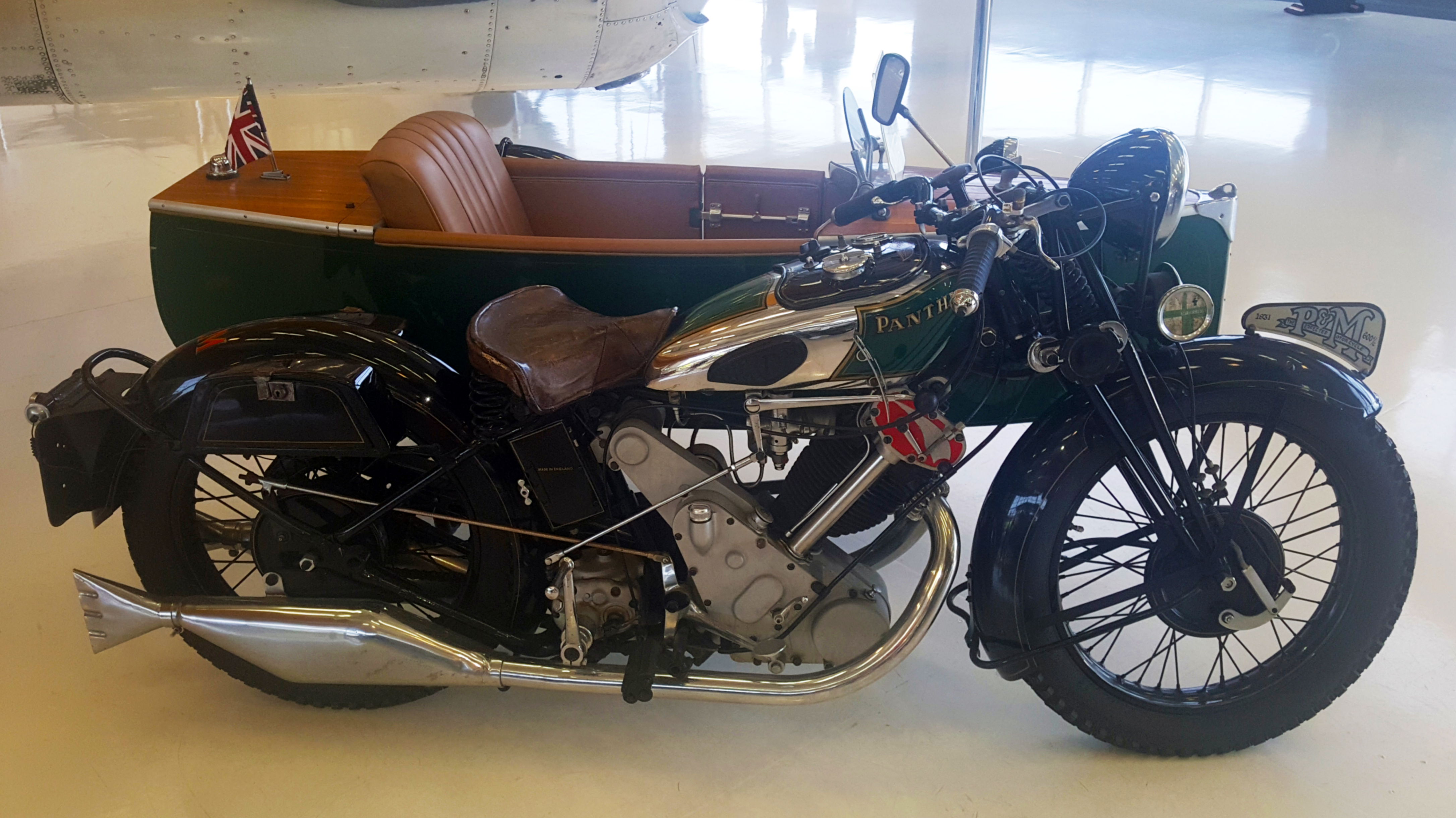 1931 Panther motorcycle once owned by actor Steve McQueen and restored by Von Dutch, at the Lyon Air Museum